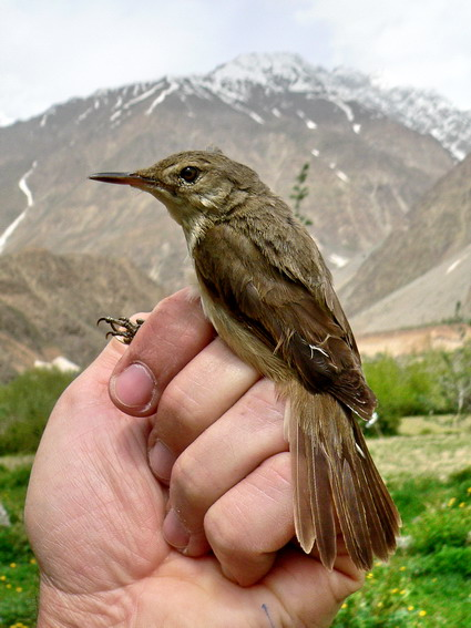 An adult Large-billed Reed Warbler (Acrocephalus orinus) caught at breeding grounds in the Pamir Mountains, Tajikistan.